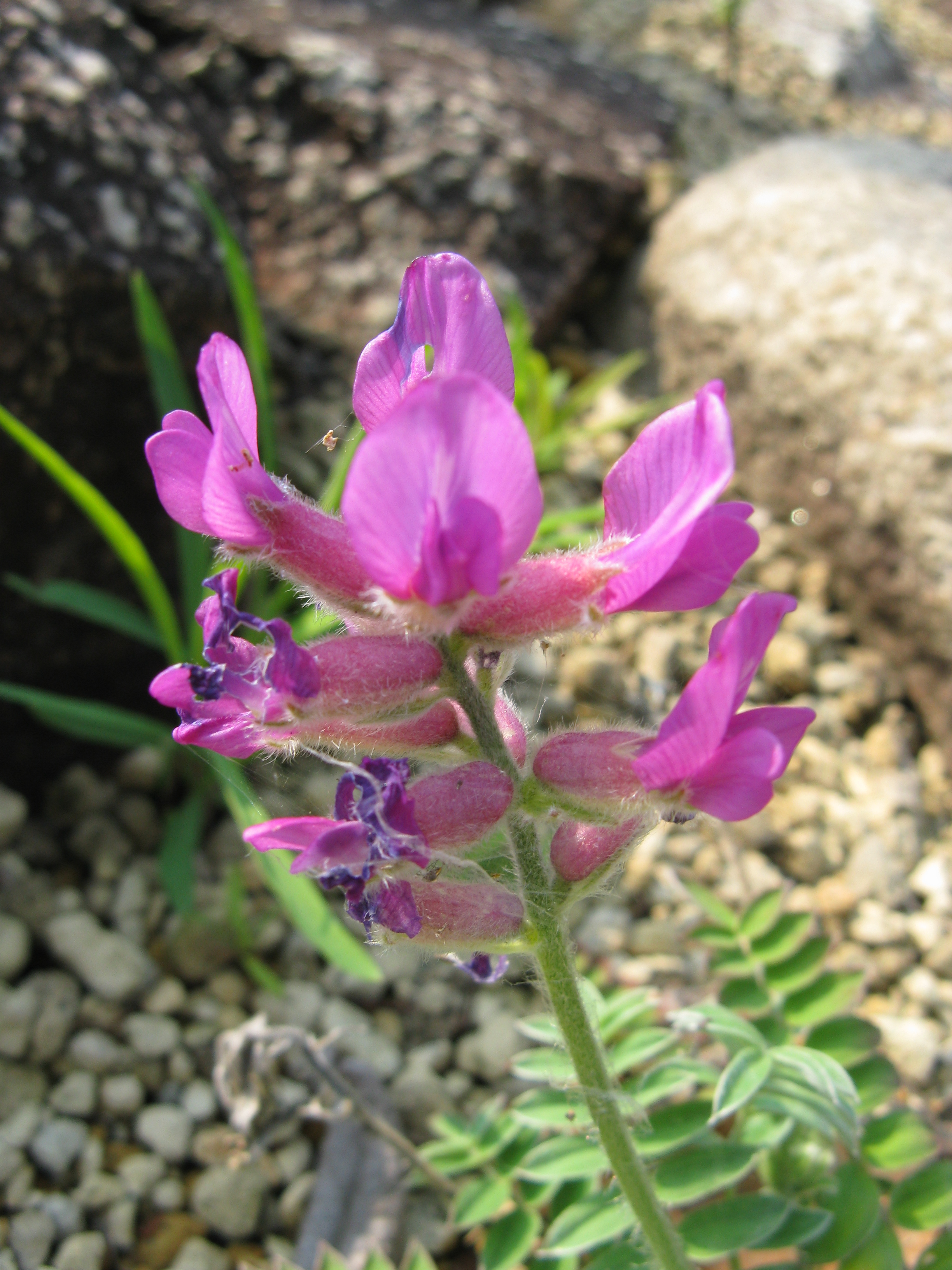 Oxytropis megalantha